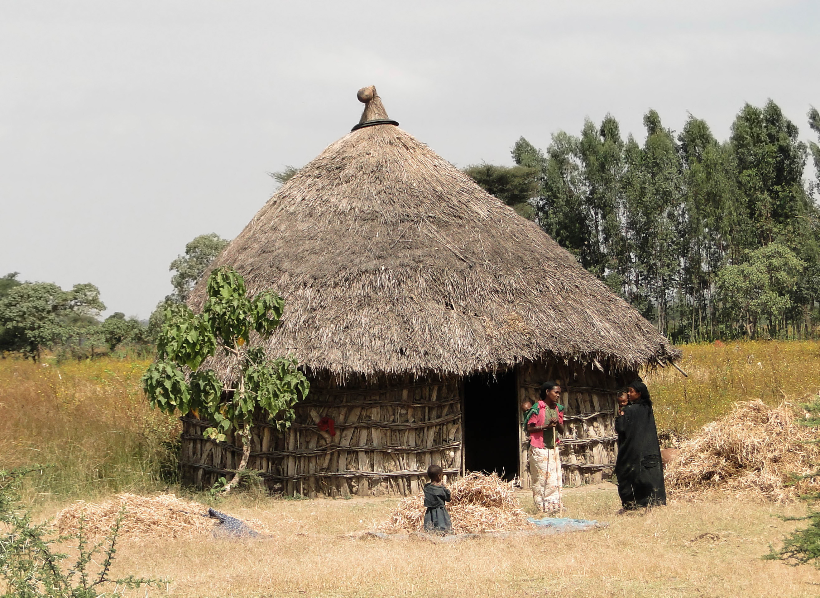 Oromo dwelling in Ethiopia